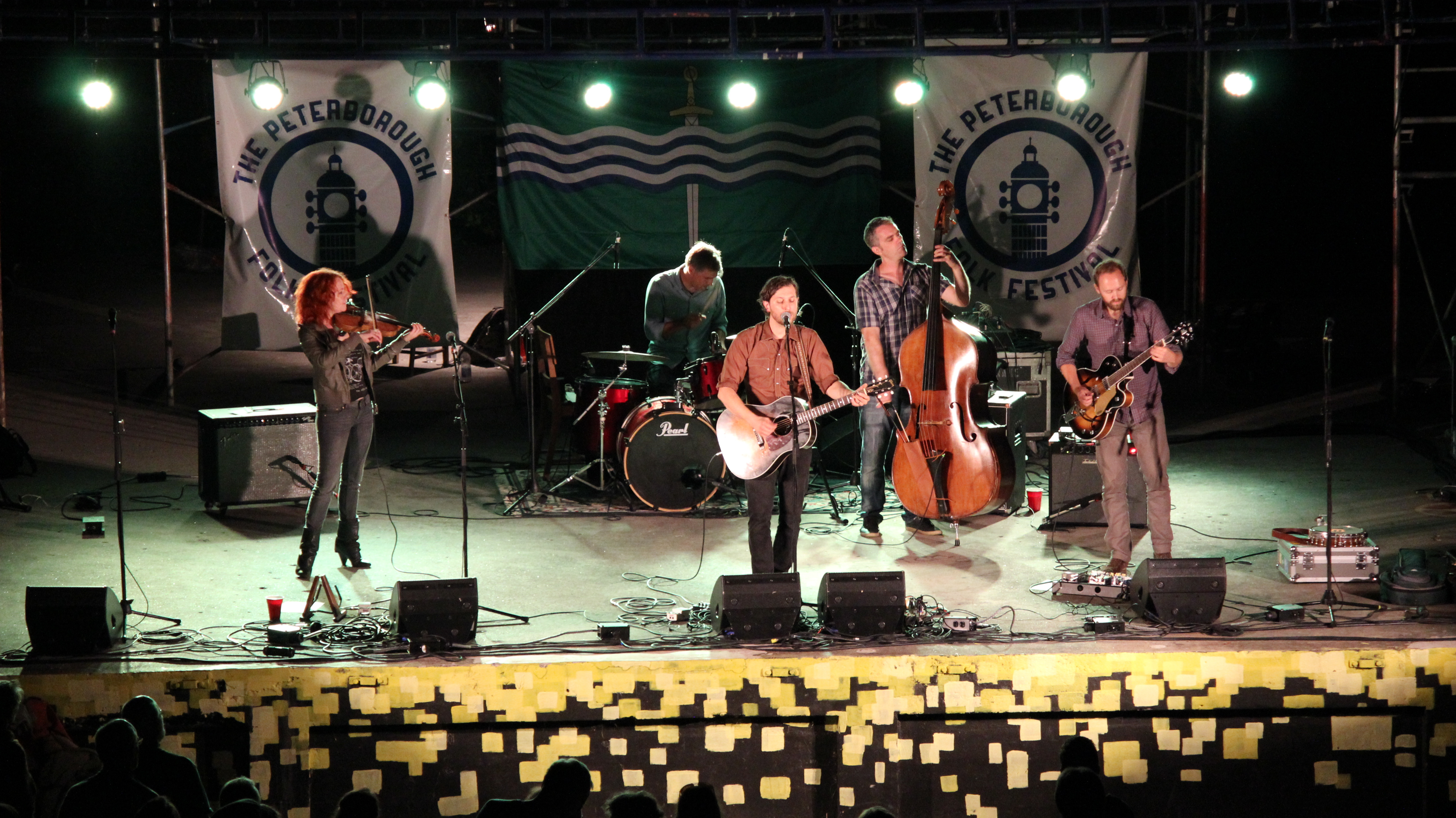 Great Lake Swimmers Band on the Peterborough Folk Festival 2014 stage at Nichols Park in Peterborough, Ontario, Canada.